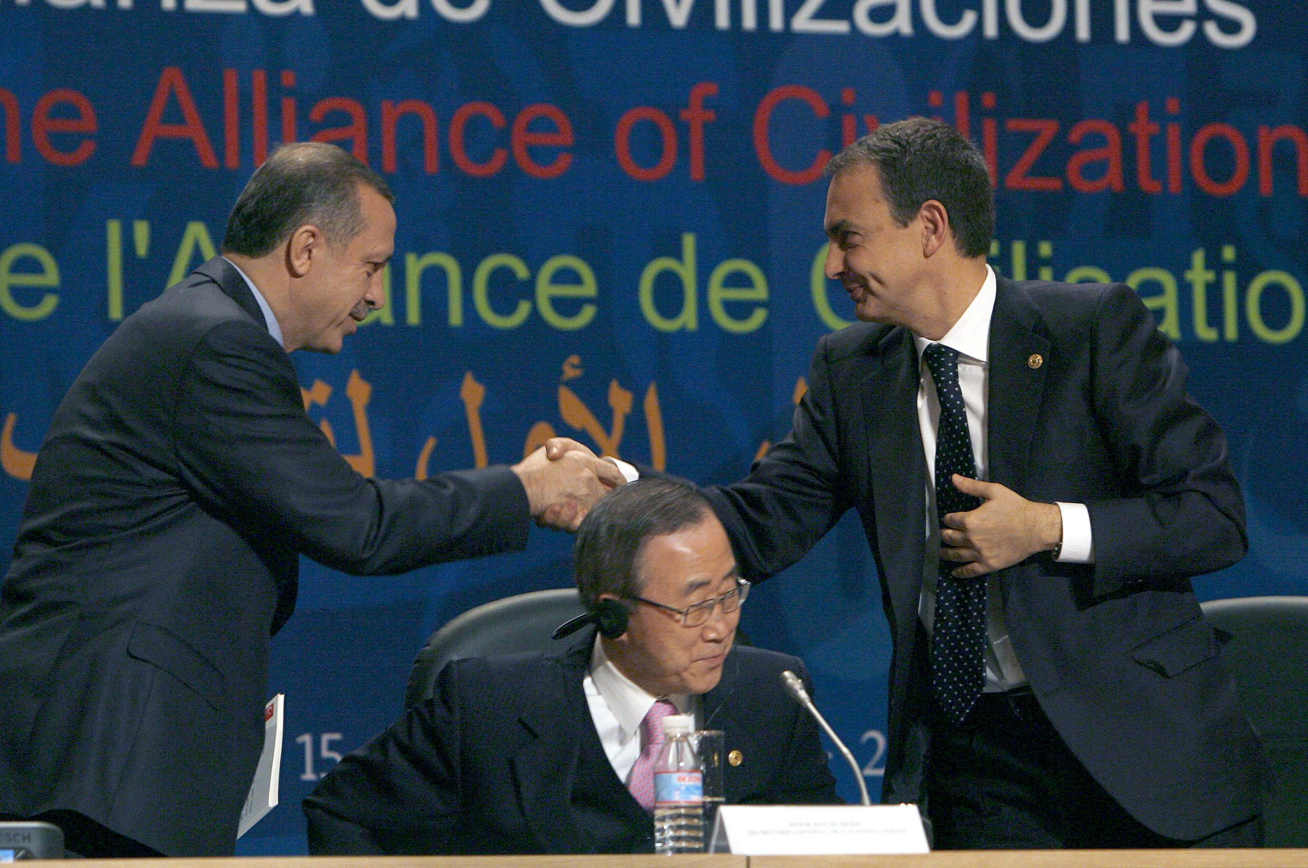 Convening at the first Forum of the Alliance was Prime Minister of Turkey, Recep Tayyip Erdogan; Secretary-General of the United Nations, Ban Ki-moon; and Prime Minister of Spain, Jose Luis Rodriguez Zapatero.